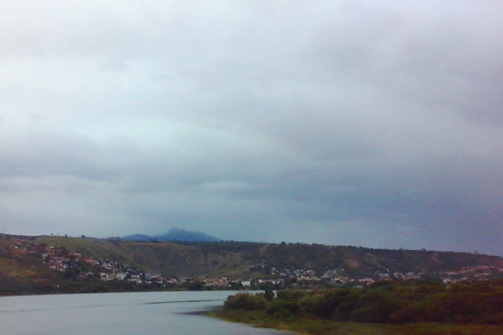 Partial view of Resplendor, Minas Gerais, Brazil.